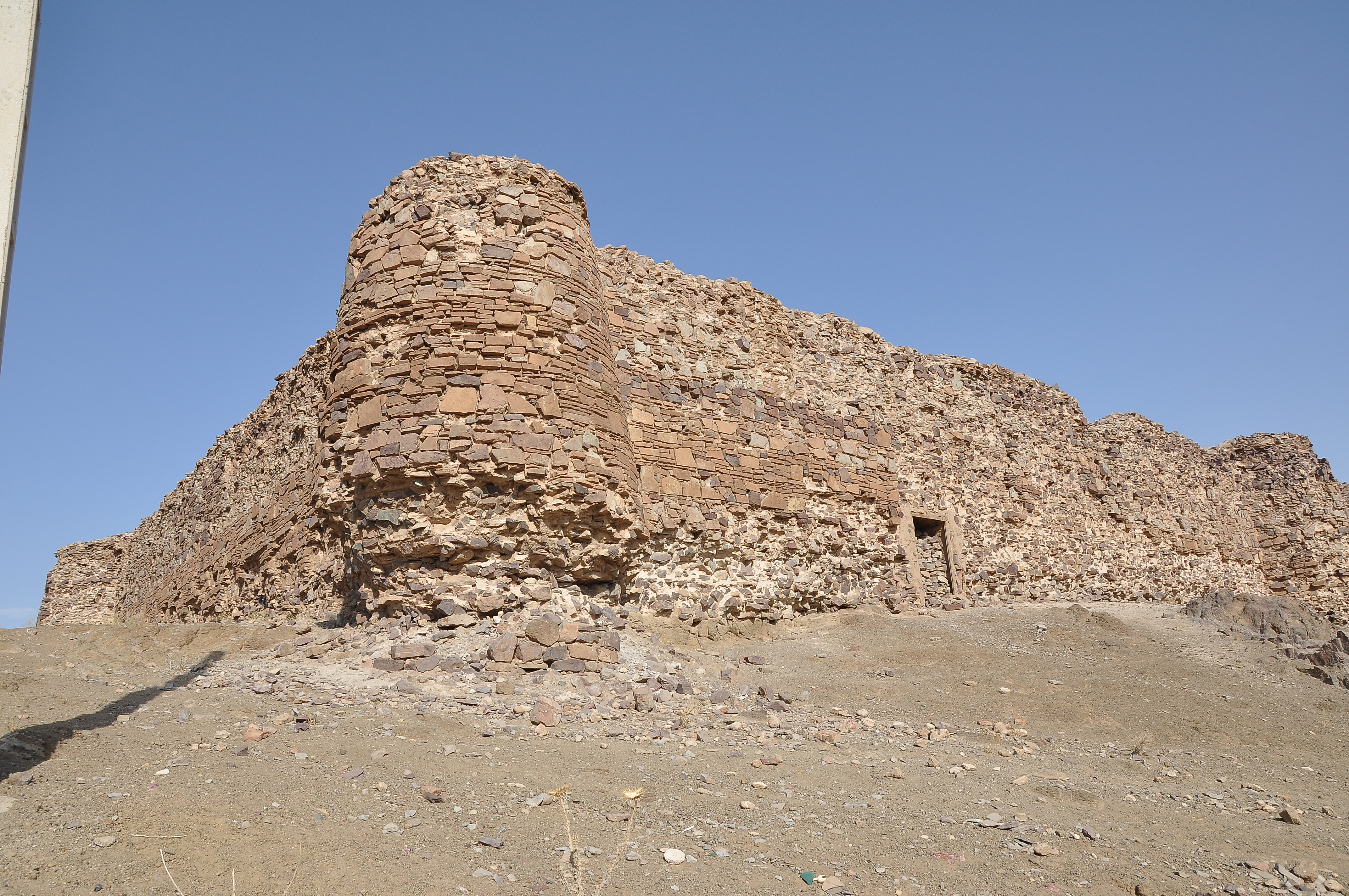 Caravanserai Sangi-AliabadHrvatski: Karavan-saraj Sangi-Aliabad